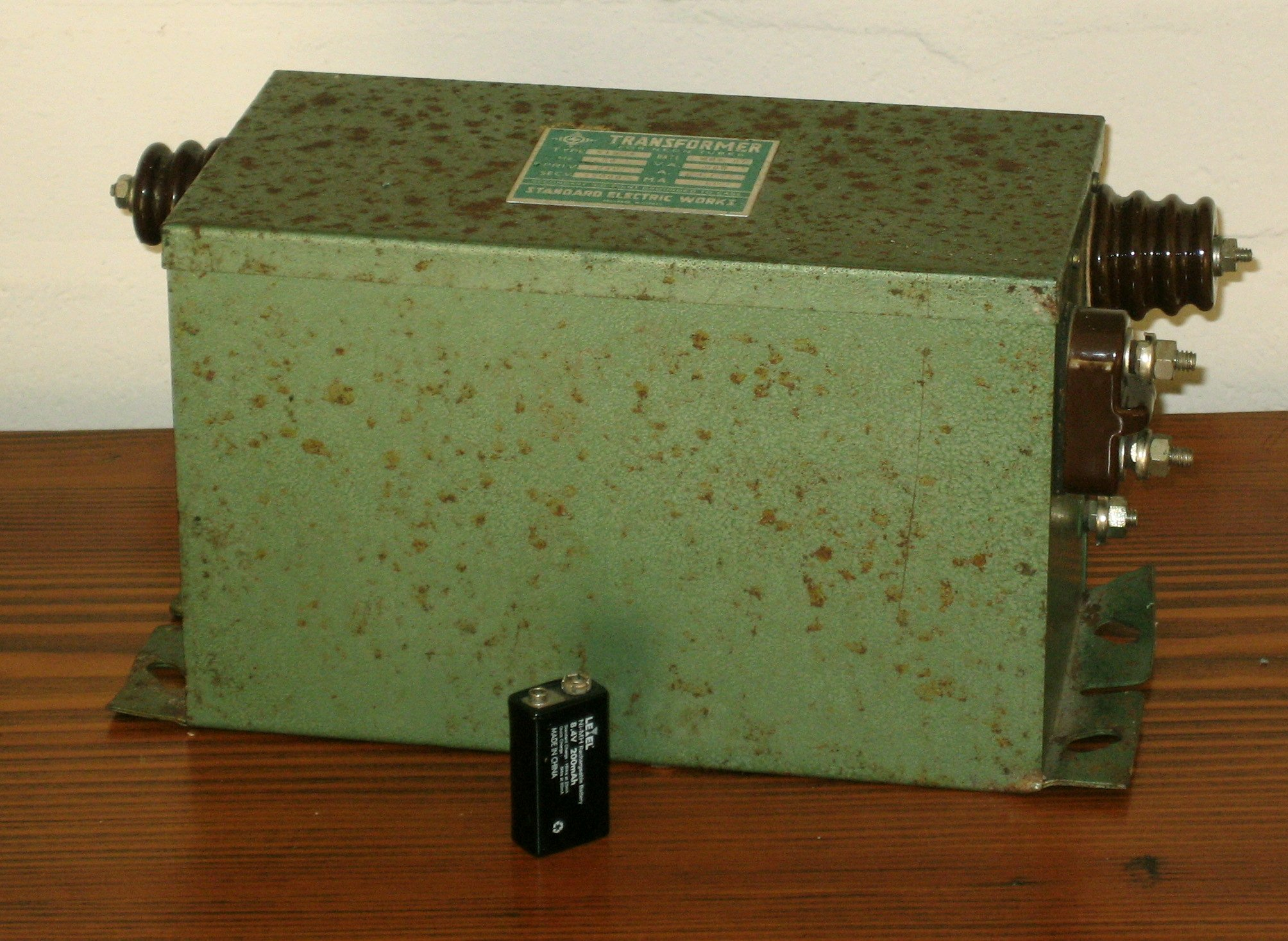 An iron cored neon sign transformer. This unit has a primary of 240V and secondary of 15kV at 60mA, and it weighs 19Kg. The 9-volt battery is shown for scale.